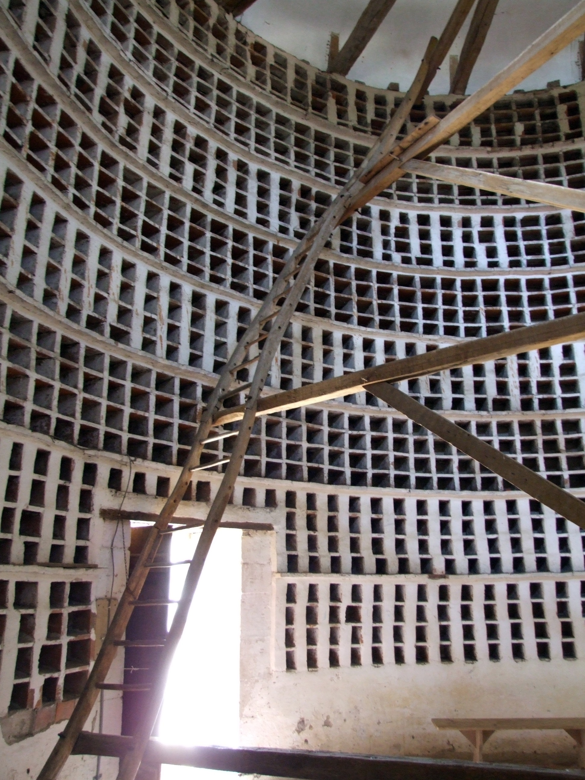 Epoisses castle, Burgundy, FRANCE